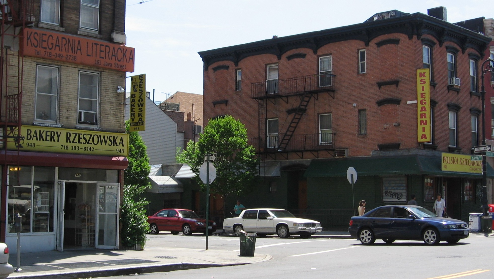 Looking southeast at Polish stores on Java Street and Manhattan Avenue in Greenpoint, Brooklyn